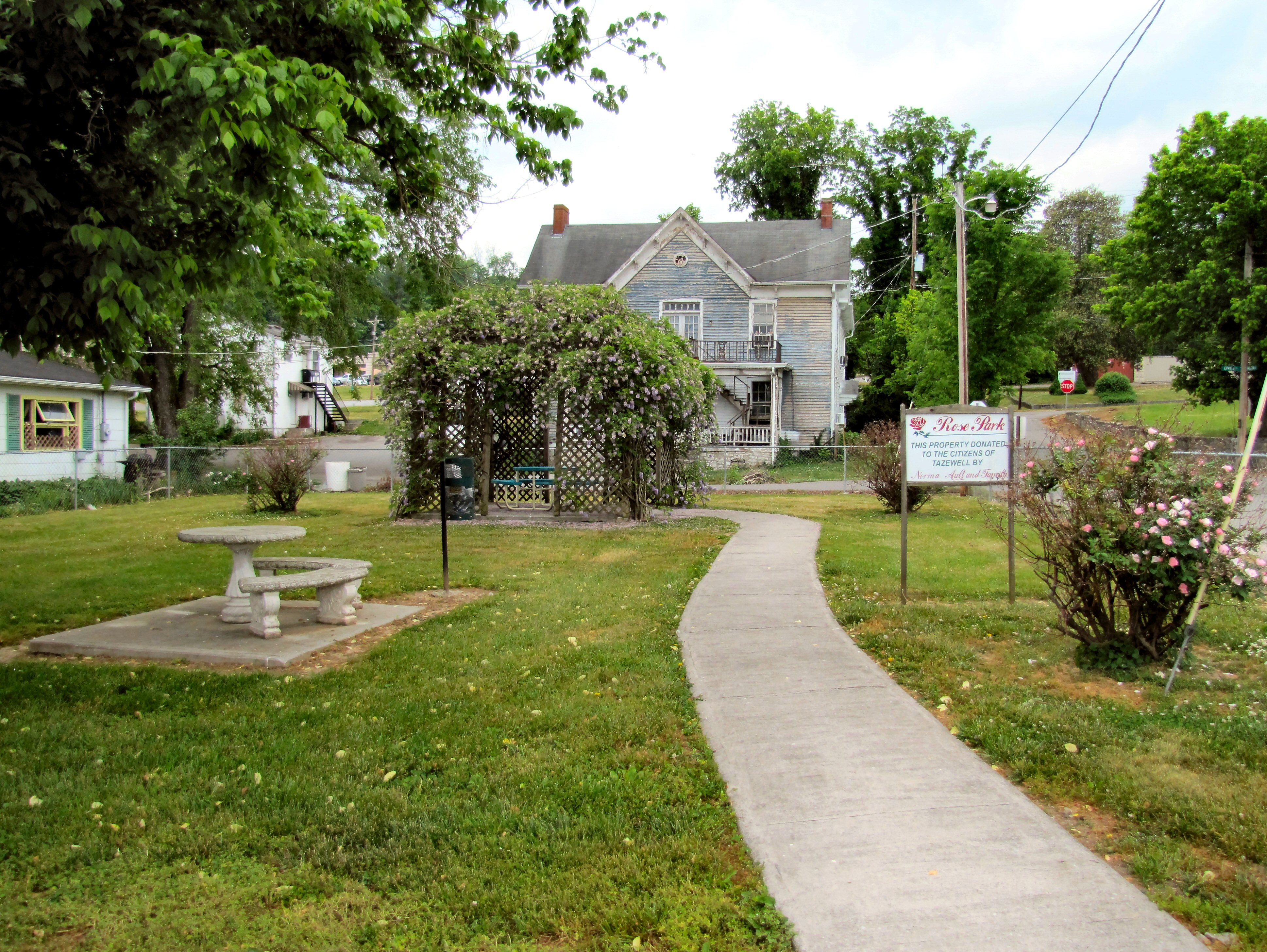 Rose Park in Tazewell, Tennessee, United States.